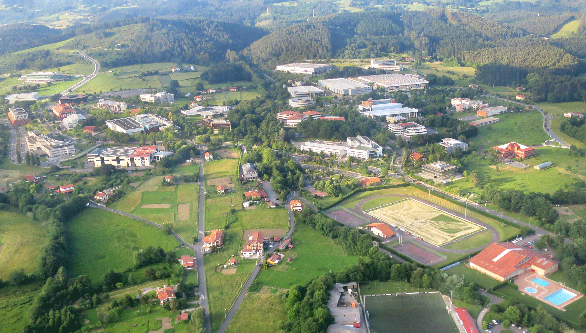 Aerial photo of the Biscay Science and Technology Park